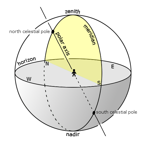 Diagram of the local meridian on the celestial sphere, depicting the north and south celestial poles, the zenith, the nadir, and the north, south, east, and west points on the horizon.